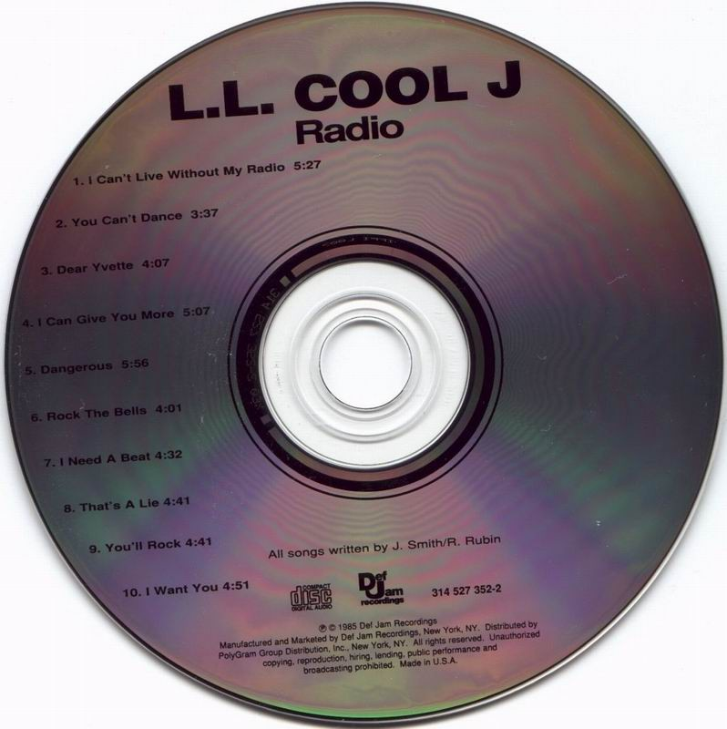 Compact disc of the LL Cool J album Radio. This is the 1995 U.S. reissue of the album that was released on Def Jam Recordings. The album was originally released in 1985 on Def Jam Recordings.